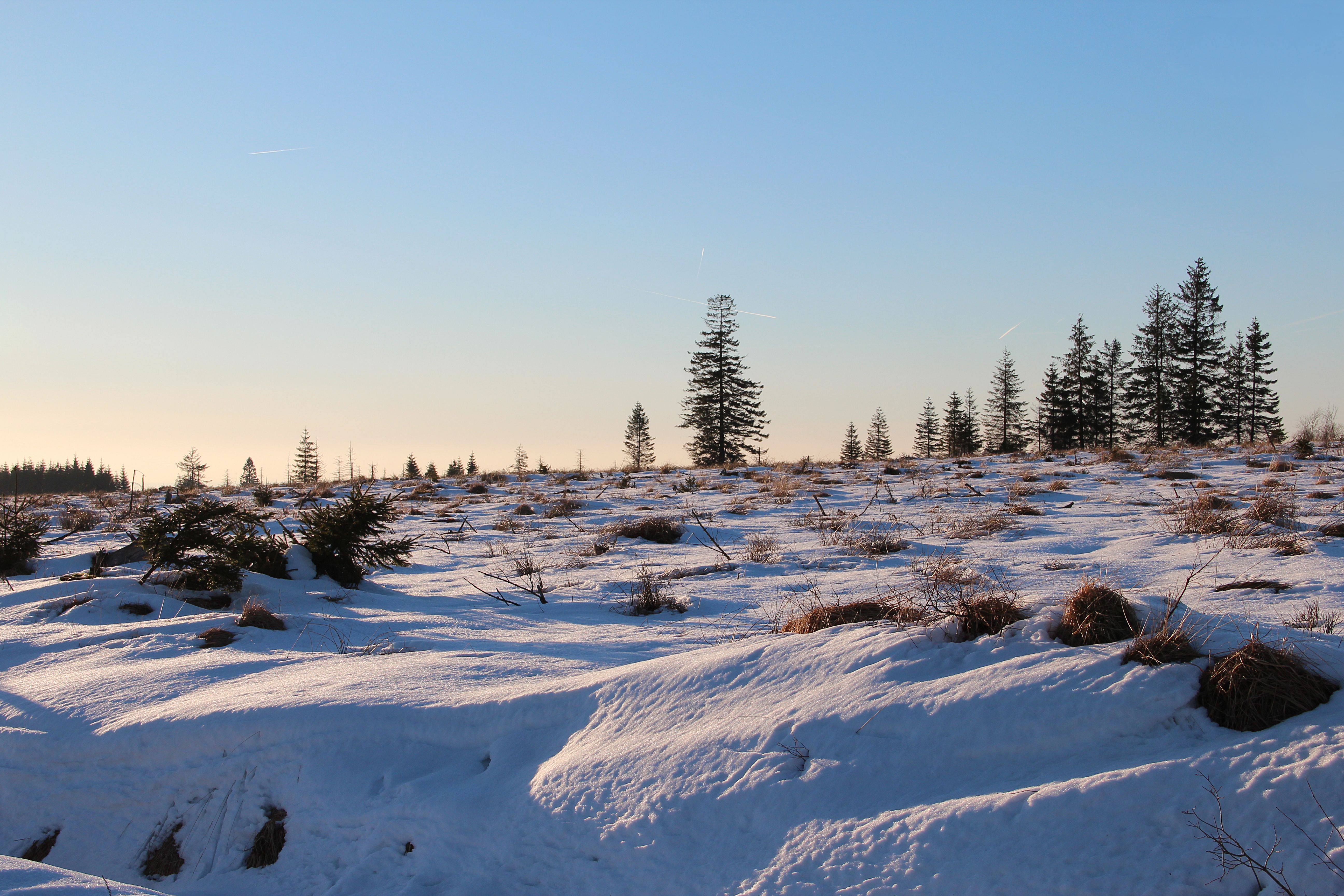 Xhoffraix - High Fens (Belgium), Grande-Fagne near the Baraque Michel.